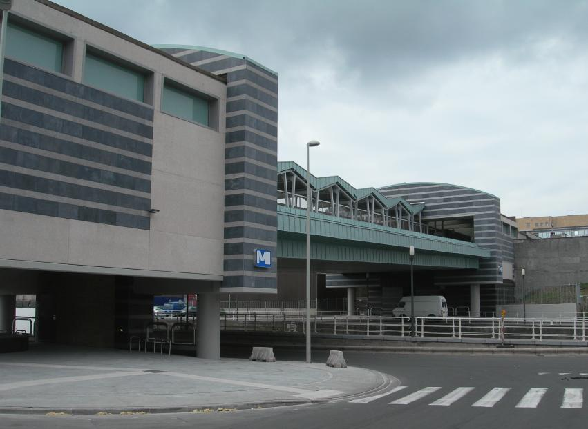 Entrance of Delacroix station, Brussels metro